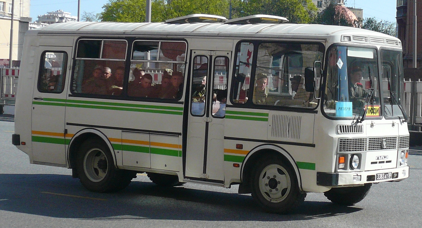 PAZ-3205